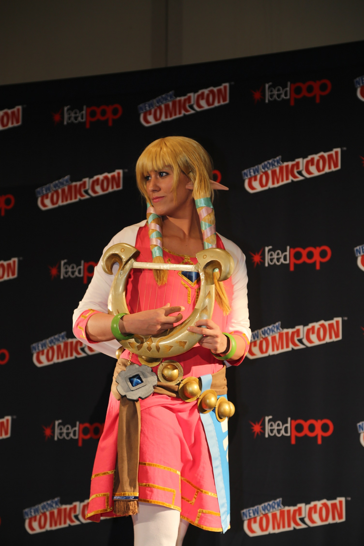 Melanie Braverman cosplaying as the Wing Ceremony version of Princess Zelda (from The Legend of Zelda: Skyward Sword) at New York Comic Con in 213 (NYCC 2013).